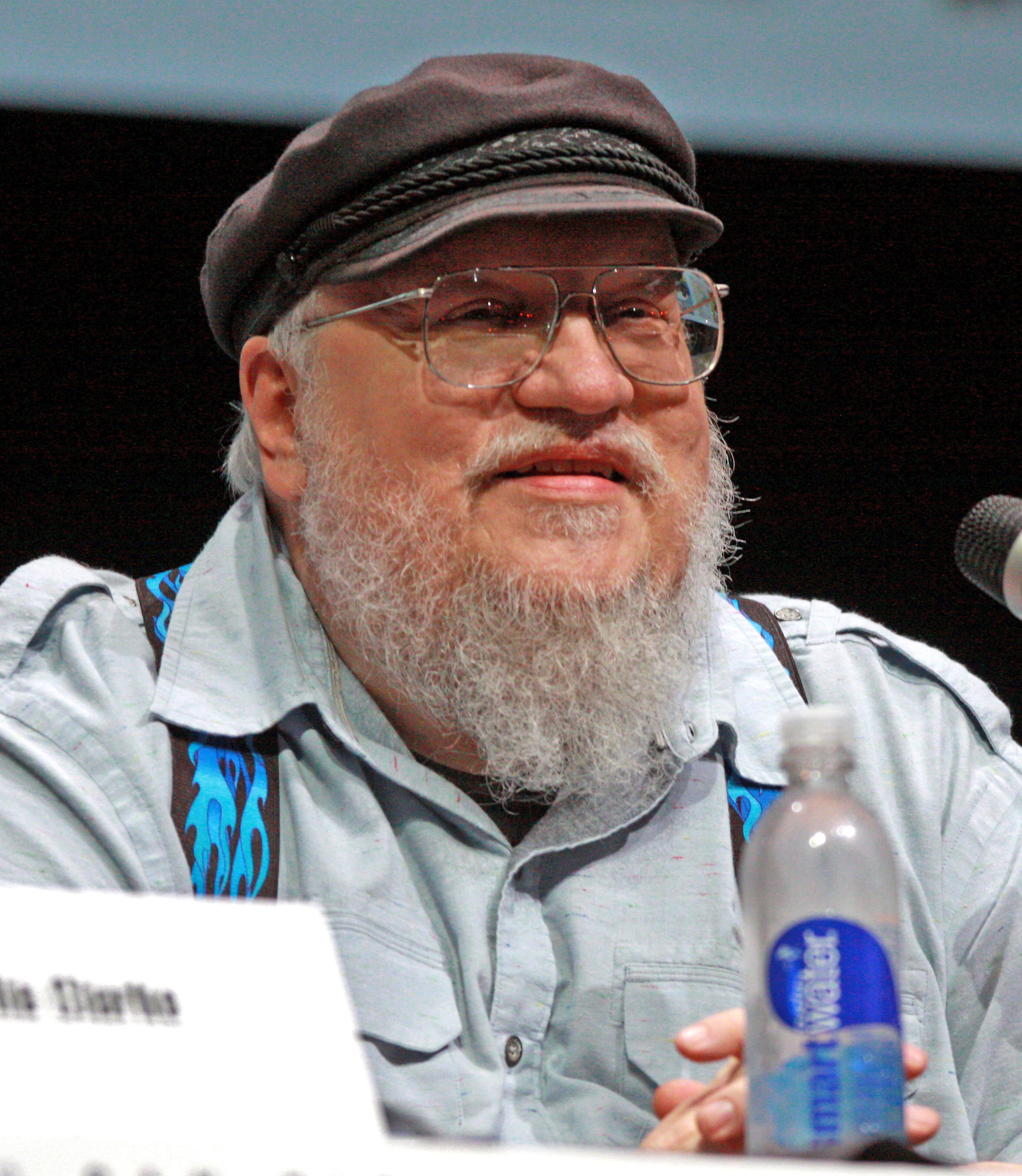 George R. R. Martin at the 2013 San Diego Comic Con International in San Diego, California.